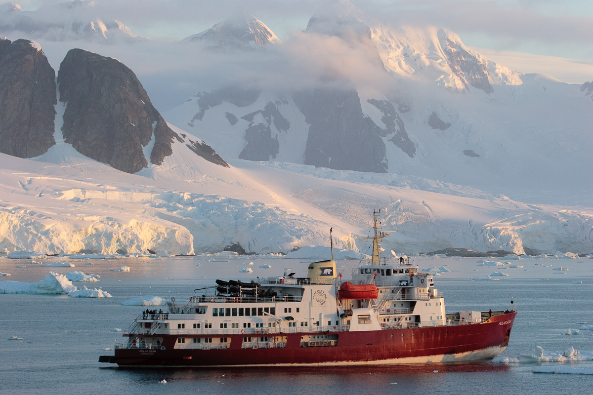 M/V Polar Star in the Grandidier Channel, Antarctic Peninsula. Copyright 2006, Ryan Holliday. The original image can be found at